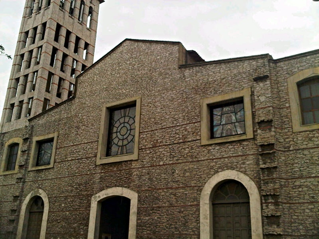 Catedral en el malecon de Puerto Cabello